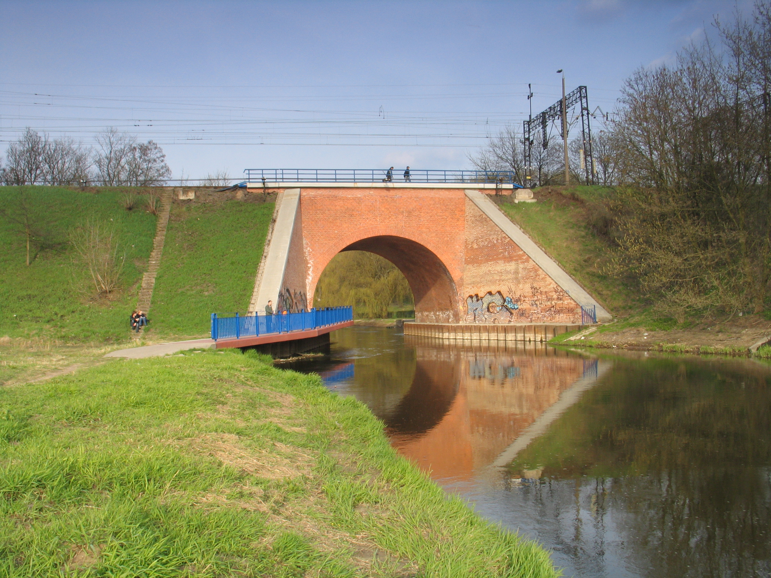 Bridge on the Zgłowiączka River, Włocławek, Poland